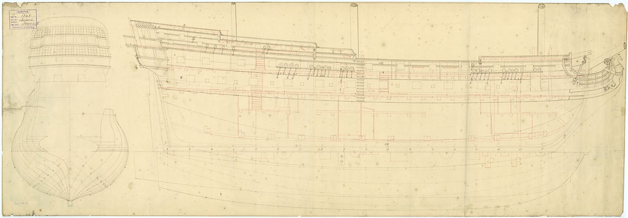 Superb (captured 1710) Scale: 1:48. Plan showing the body plan, stern board outline, inboard profile with figurehead, and longitudinal half-breadth with lower deck details, for Superb (captured 1710), a captured French Fourth Rate. The plan may be Superb after her 'Great Repair' between 1720 and 1722, as a 56-gun Fourth Rate, two-decker. NMM, Progress Book, volume 1, folio 245, states that 'Superb' arrived at Plymouth Dockyard on 13 November 1713 and docked on 8 December 1713. She was undocked on 9 December 1713. 'Superb' was docked again on 7 January 1714 and undocked on 3 February 1714. She later arrived at Woolwich Dockyard on 24 February 1720 and was docked on 27 April 1720. 'Superb' was undocked on 10 November 1721 and sailed on 10 March 1722 having undergone a Great Repair. SUPERB 1710